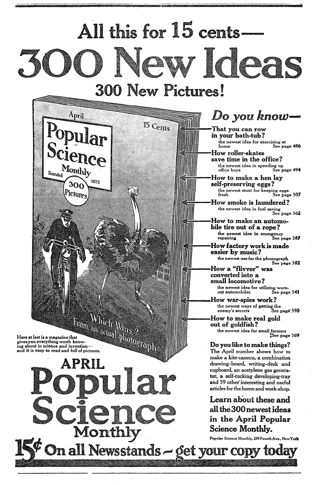 Advertisement for the April 1916 issues of Popular Science Monthly. A 4 column wide ad on page 7 of the March 16, 1916 New York Times. Popular Science Monthly had been published a scientific journal from May 1872 to September 1915, when it was purchased by Modern Publishing. The journal continued as Scientific Monthly and Modern Publishing renamed their World's Advance general audience magazine to Popular Science Monthly in October 1915. Popular Science is still published as of 2008.